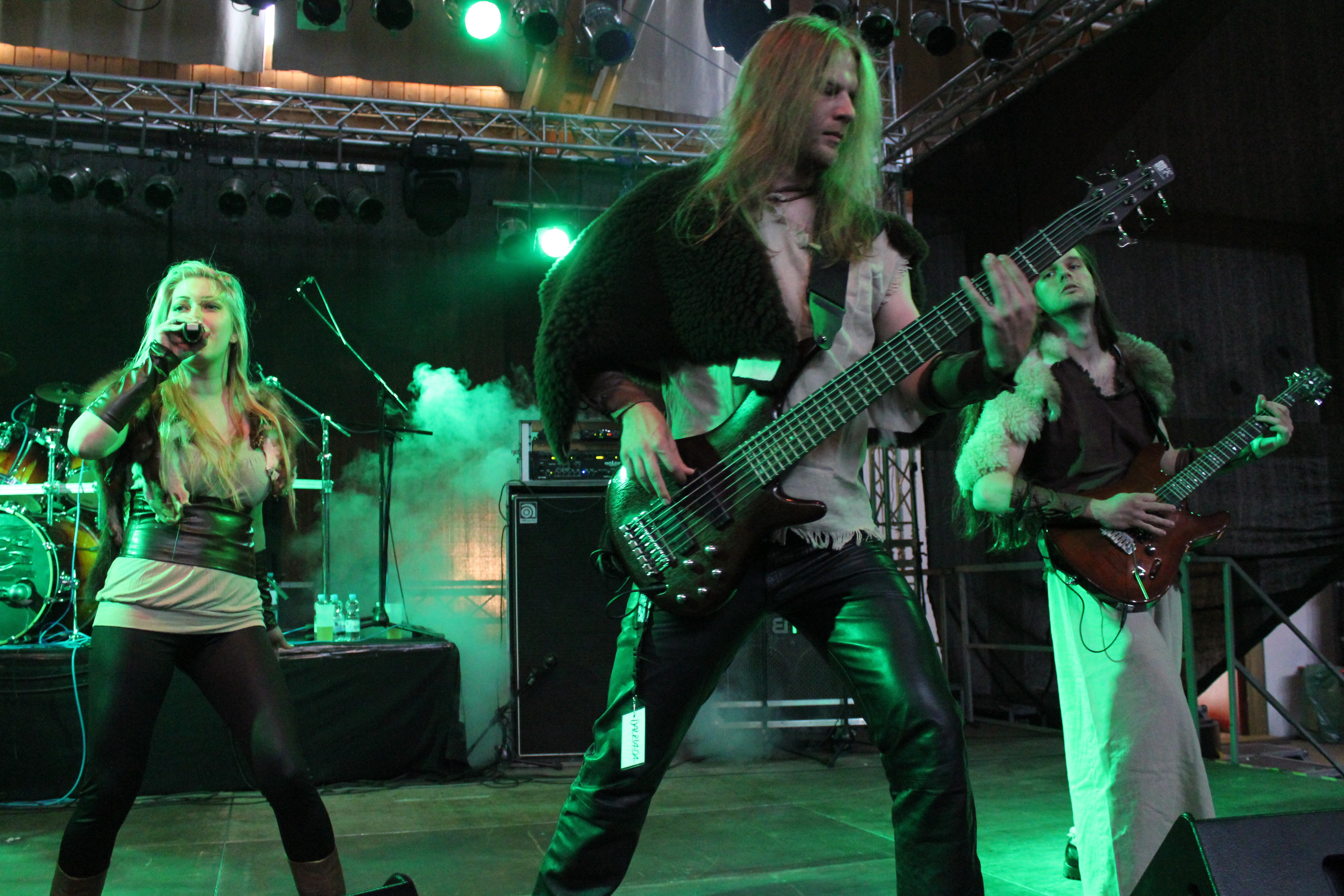 "Dalriada" live at the Ragnarök-Festival 2011